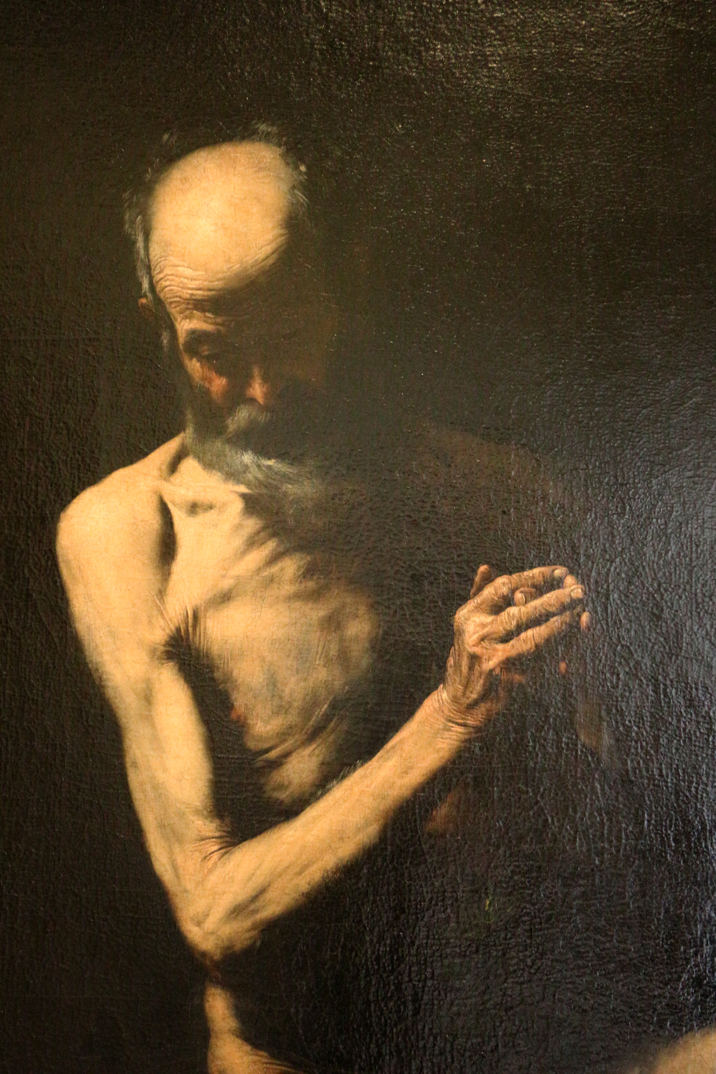 Pinacoteca del Castello Sforzesco